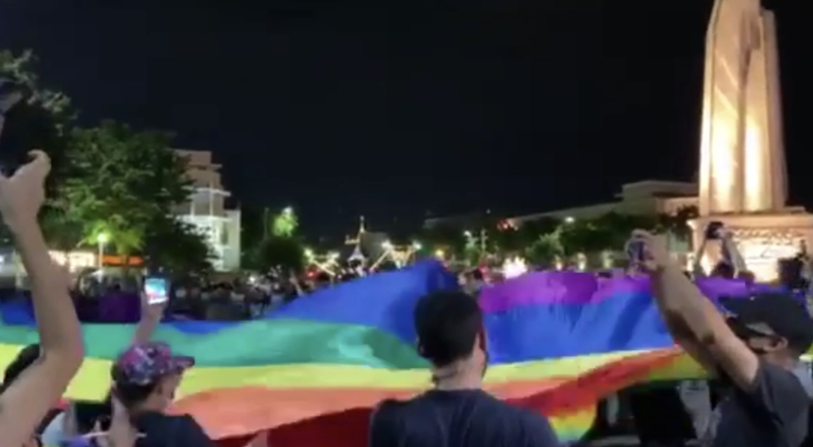 LGBT flag in the middle of 2020 Thai political protest